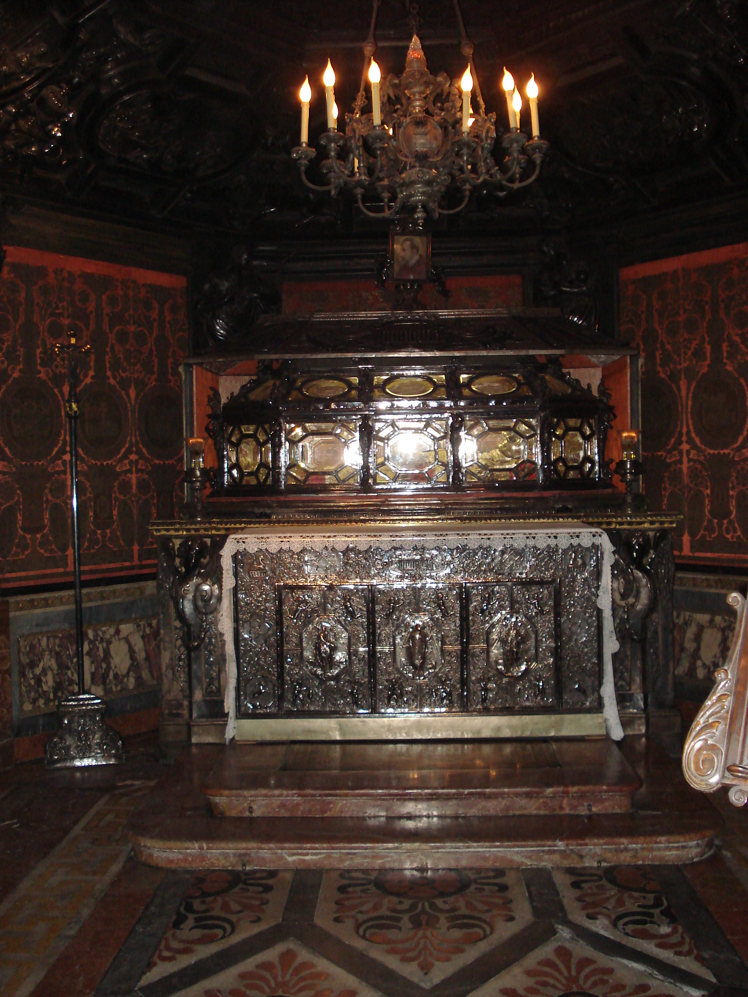 Cathedral in Milan, Italy. The coffin made in crystal and silver in the Scurolo di san Carlo ("Saint Charles Borromeo's crypt") in which saint Charles Borromeo's skelton is on display. Picture by Giovanni Dall'Orto, January 29 2007.